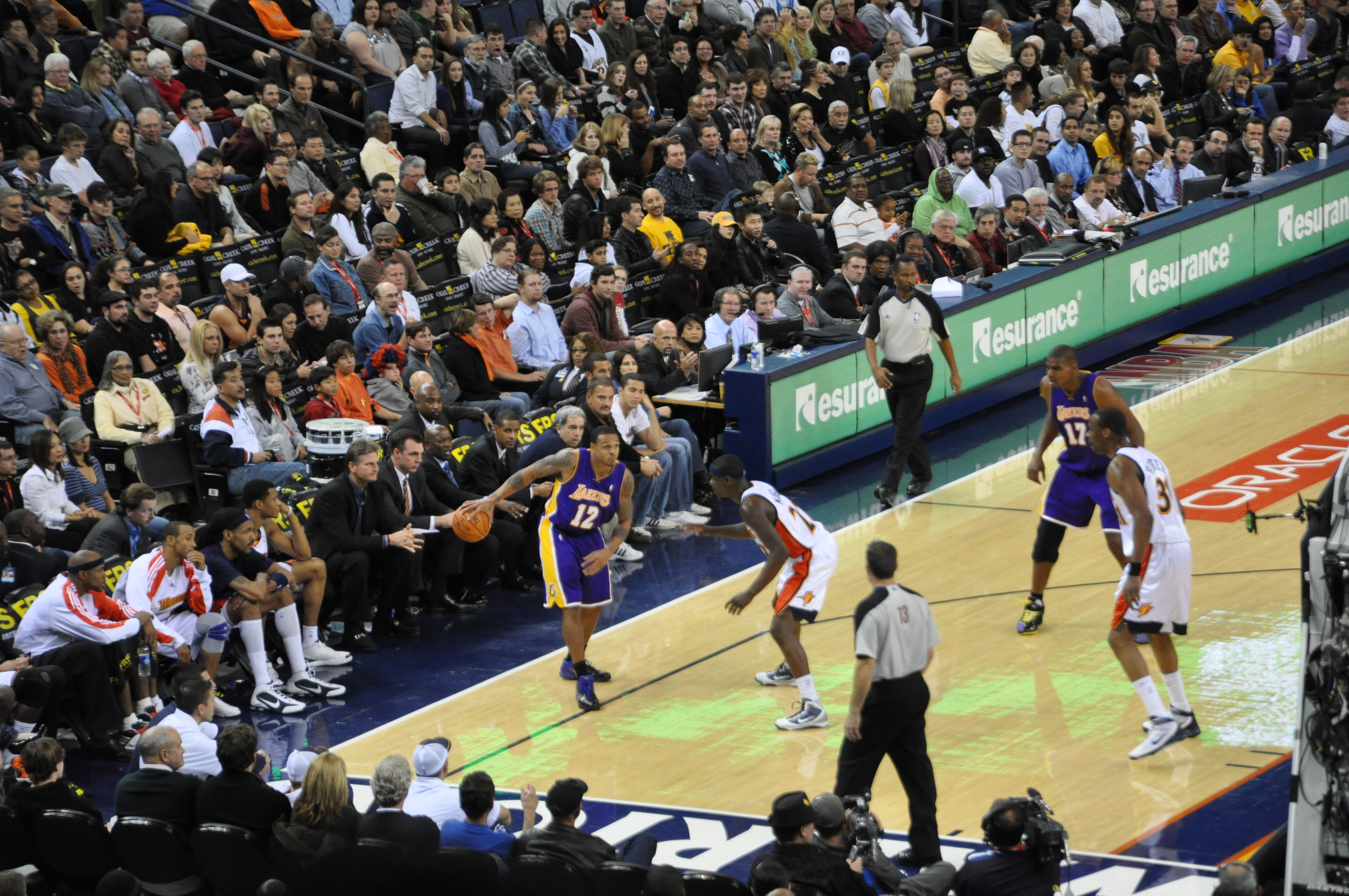 reminscent of the great craig hodges. you remember craig hodges, don't you?